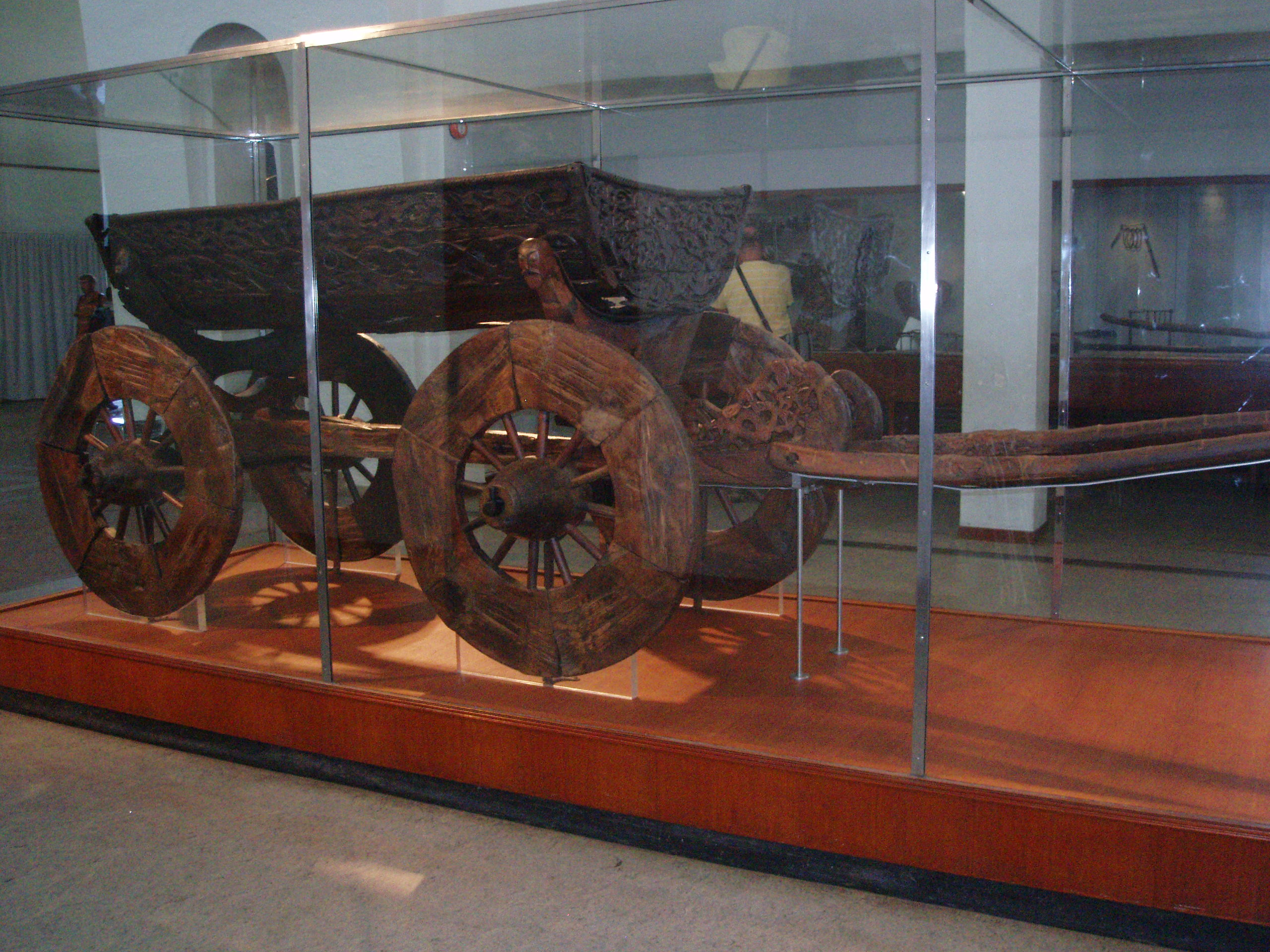 The wagon from the Oseberg excavation.